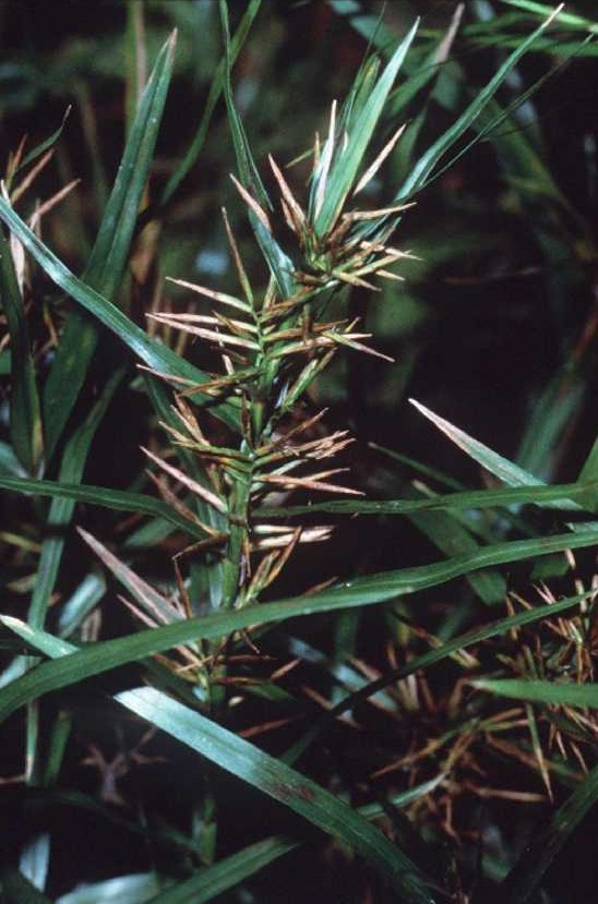 Dulichium arundinaceum from Robert H. Mohlenbrock. USDA SCS. 1989. Midwest wetland flora: Field office illustrated guide to plant species. Midwest National Technical Center, Lincoln. Courtesy of USDA NRCS Wetland Science Institute.